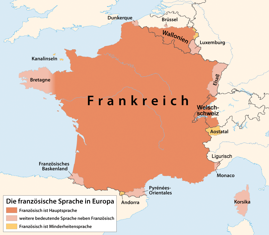 Distribution map of the French language in Europe